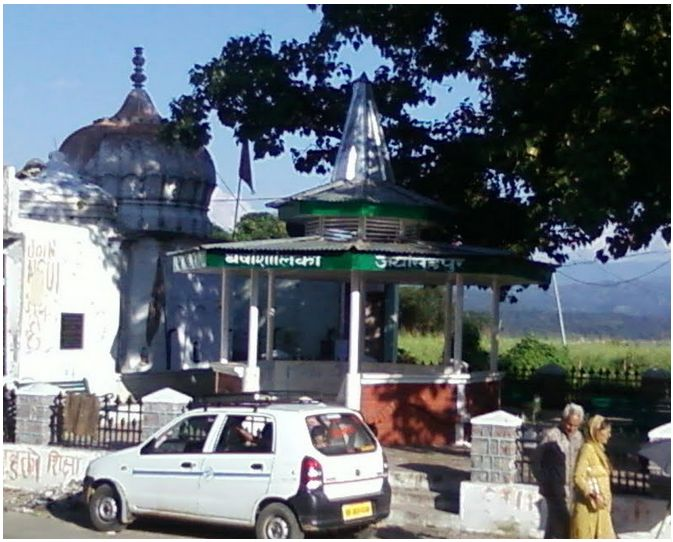 Photo of Jaisinghpur Bus Stand.